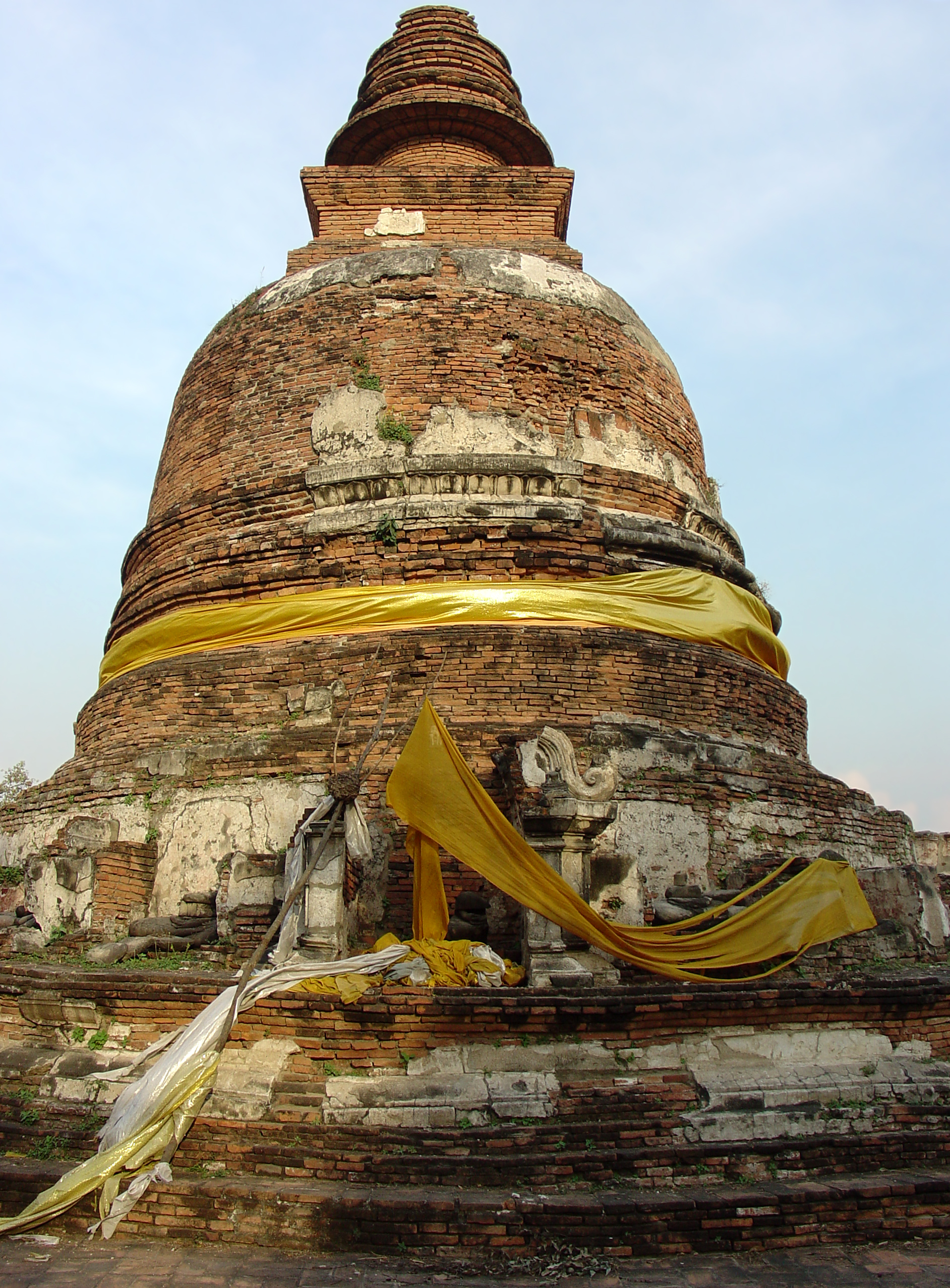 The body of Wat Maheyong's chedi (stupa) is fashioned in Sri Lankan style: a bell-shaped dome, a square harmika (railing) atop the dome, and a chattra (honorific umbrella) above the harmika. The yellow silk band around the stupa indicates that the structure is venerated, and that some form of active worship takes place there.